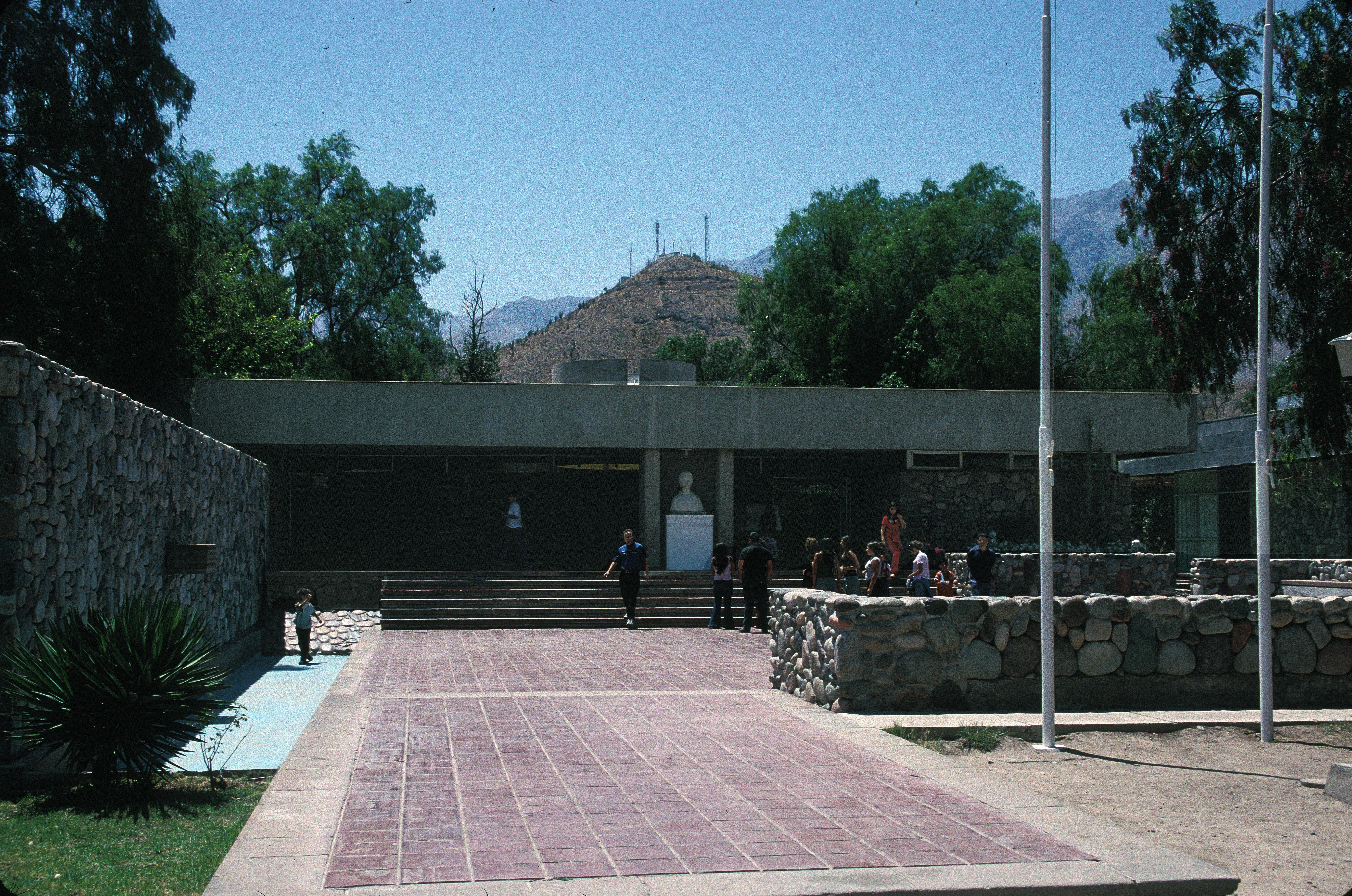 THIS MUSEUM IS DEDICATED TO LIFE AND WORKS OF GABRIELA MISTRAL, A POET, AND CHILE'S FIRST NOBLE PRIZE WINNER